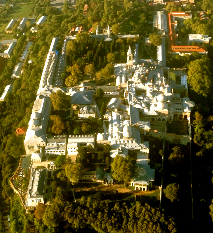 İstanbul, Topkapı Palace, Hagia Irene, Hagia Sophia, Sultan Ahmed Mosque - Oct 2014 crop